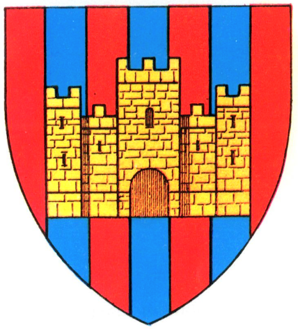 Coat of arms of Ținutul Suceava (1938-1940), Kingdom of Romania.